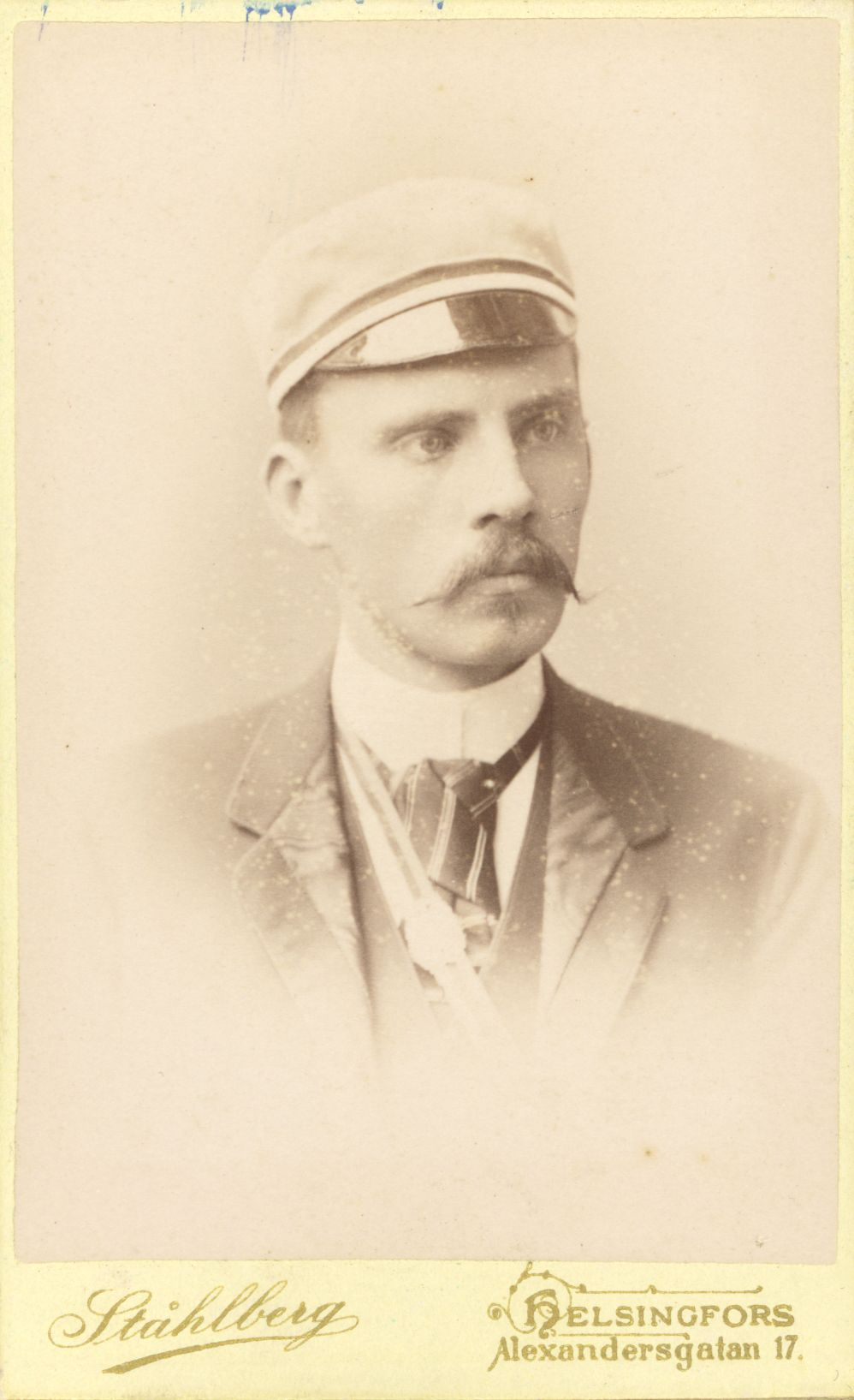 Estonian folklorist and diplomat Oskar Kallas (1868-1946) as a student. The photo was made by Finnish photographer Karl Emil Ståhlberg (1862-1916), most likely in 1892-93 when Kallas studied Finnish folklore and Finno-Ugric languages at the University of Helsinki. Source: Estonian Literary Museum.